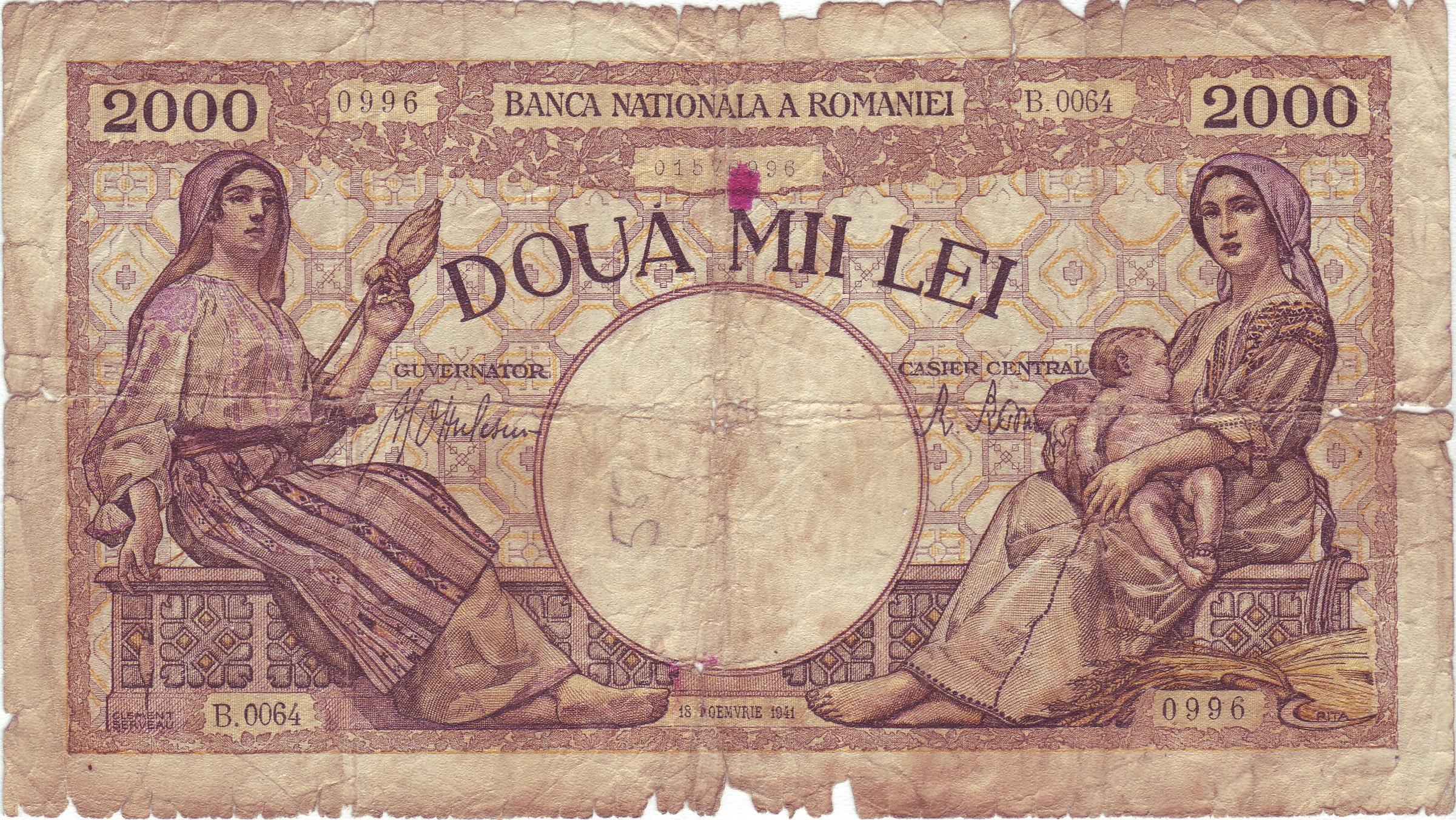 2,000 Romanian leu from 1941 - obverse